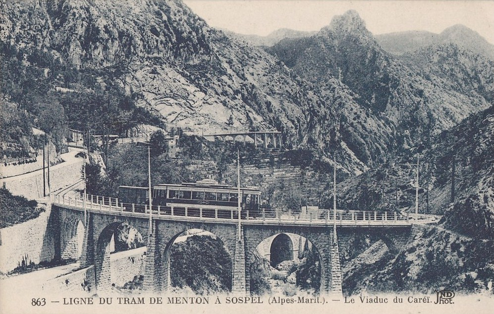 The viaduc du Carrei on the former tramway line between Menton and Sospel (Alpes-Maritimes, France).